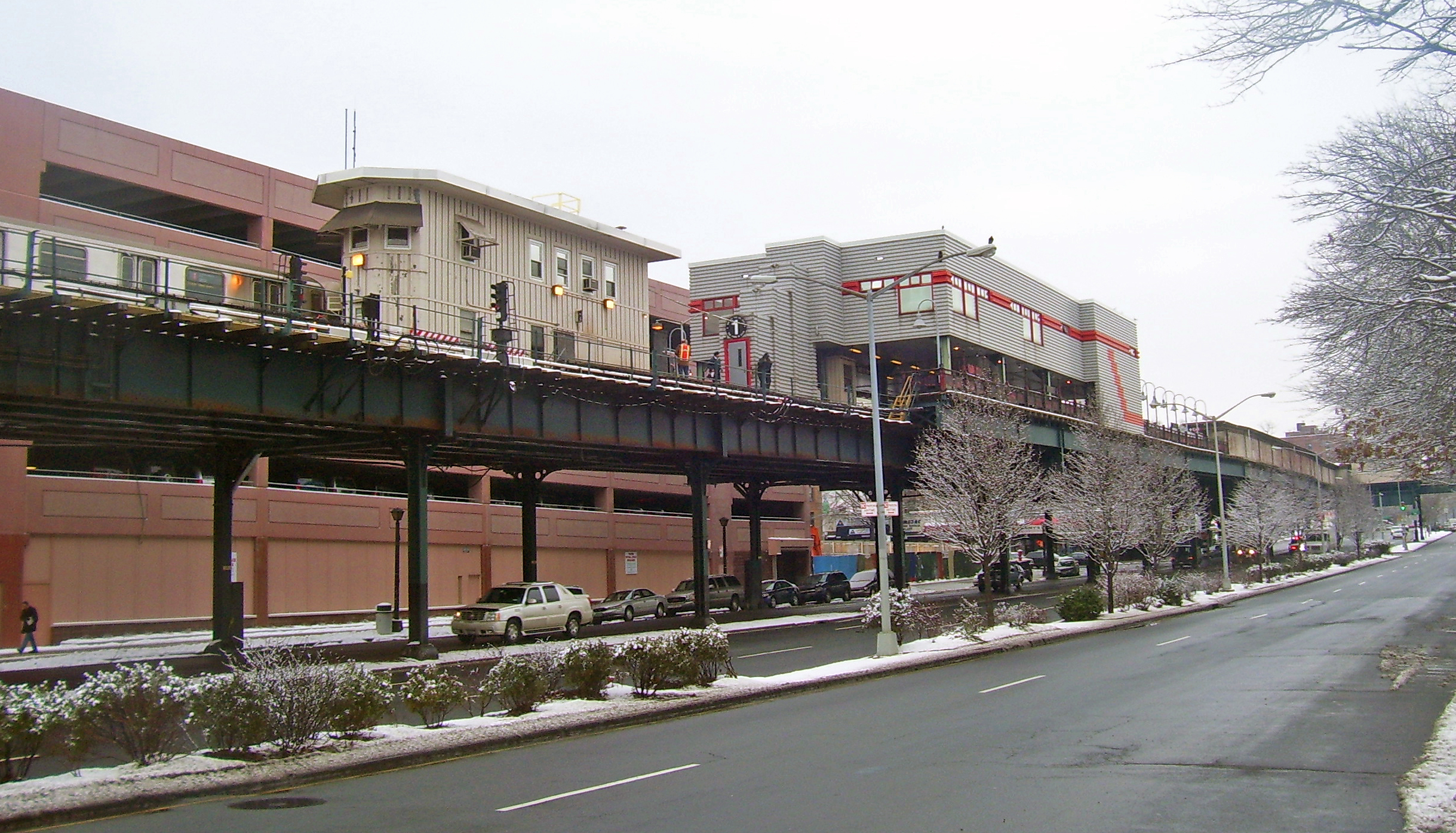 Old signal house and crew quarters at Van Cortlandt Park subway station, northern terminus of the 1 train. Taken for Wikipedia Takes The Subway